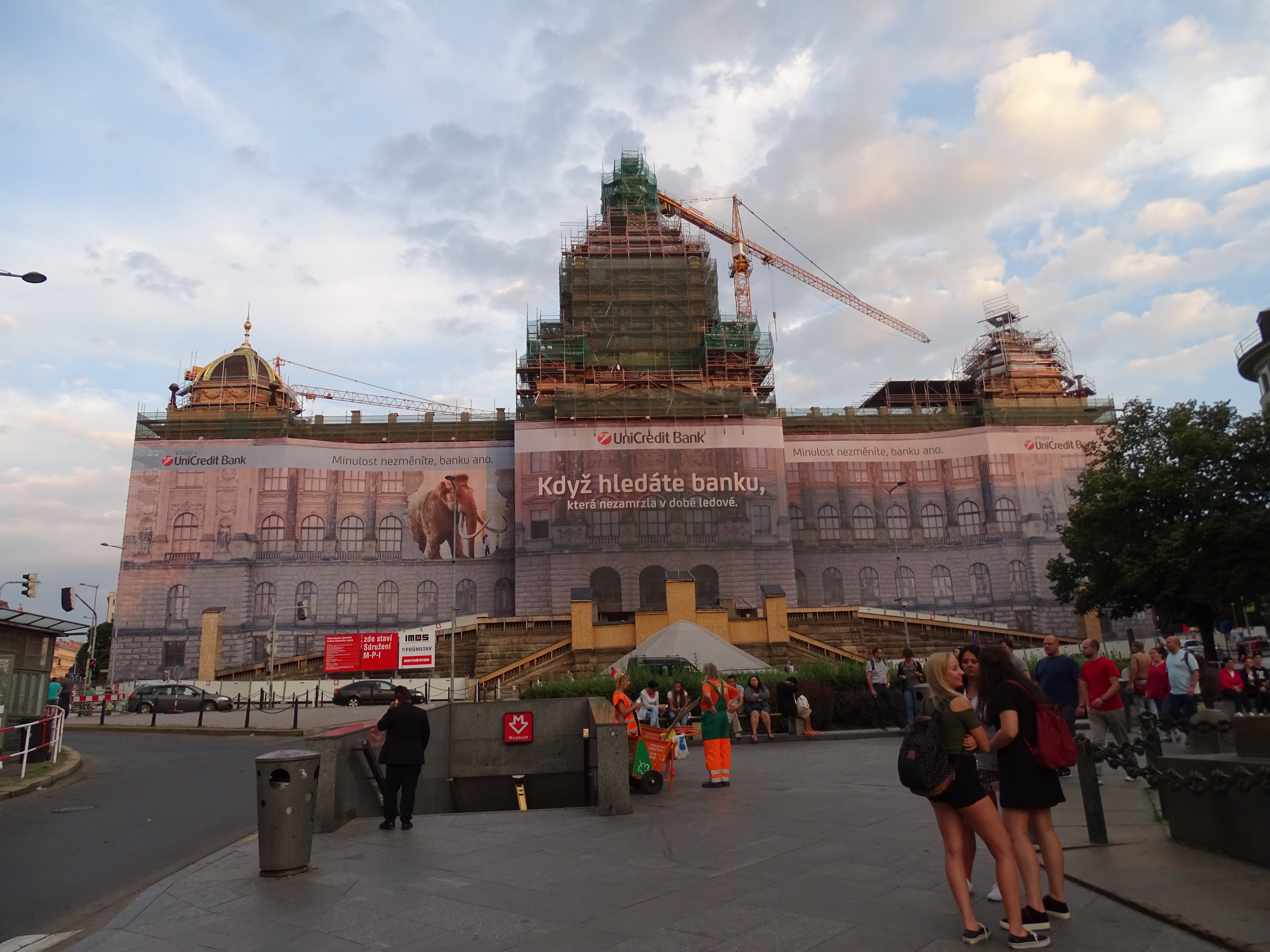 Prague-New Town, Czech Republic. Wenceslas Square, reconstruction of the National Theatre.